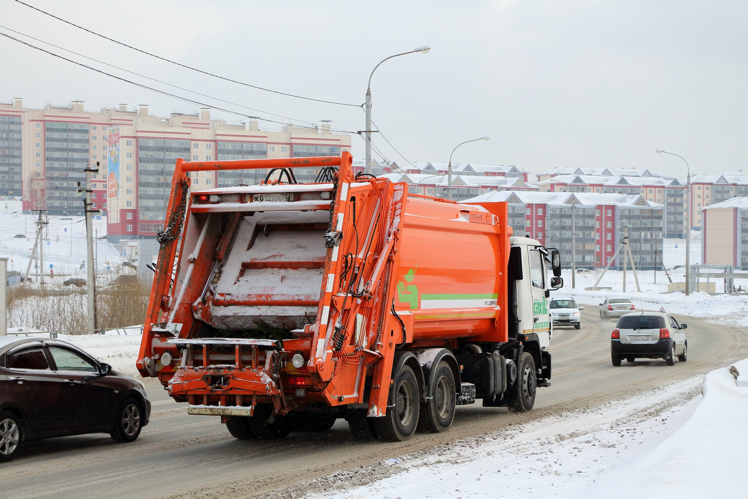 MAZ-6312-based waste collection truck in Tomsk, Russia.